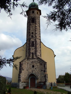 Church of Gyöngyössolymos.